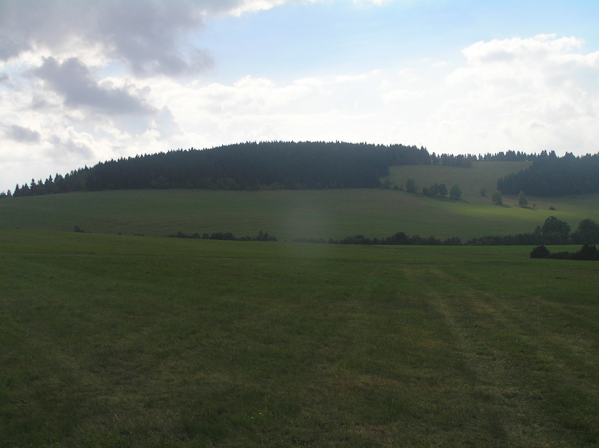 The hill Adam, Orlické hory, Czech Republic